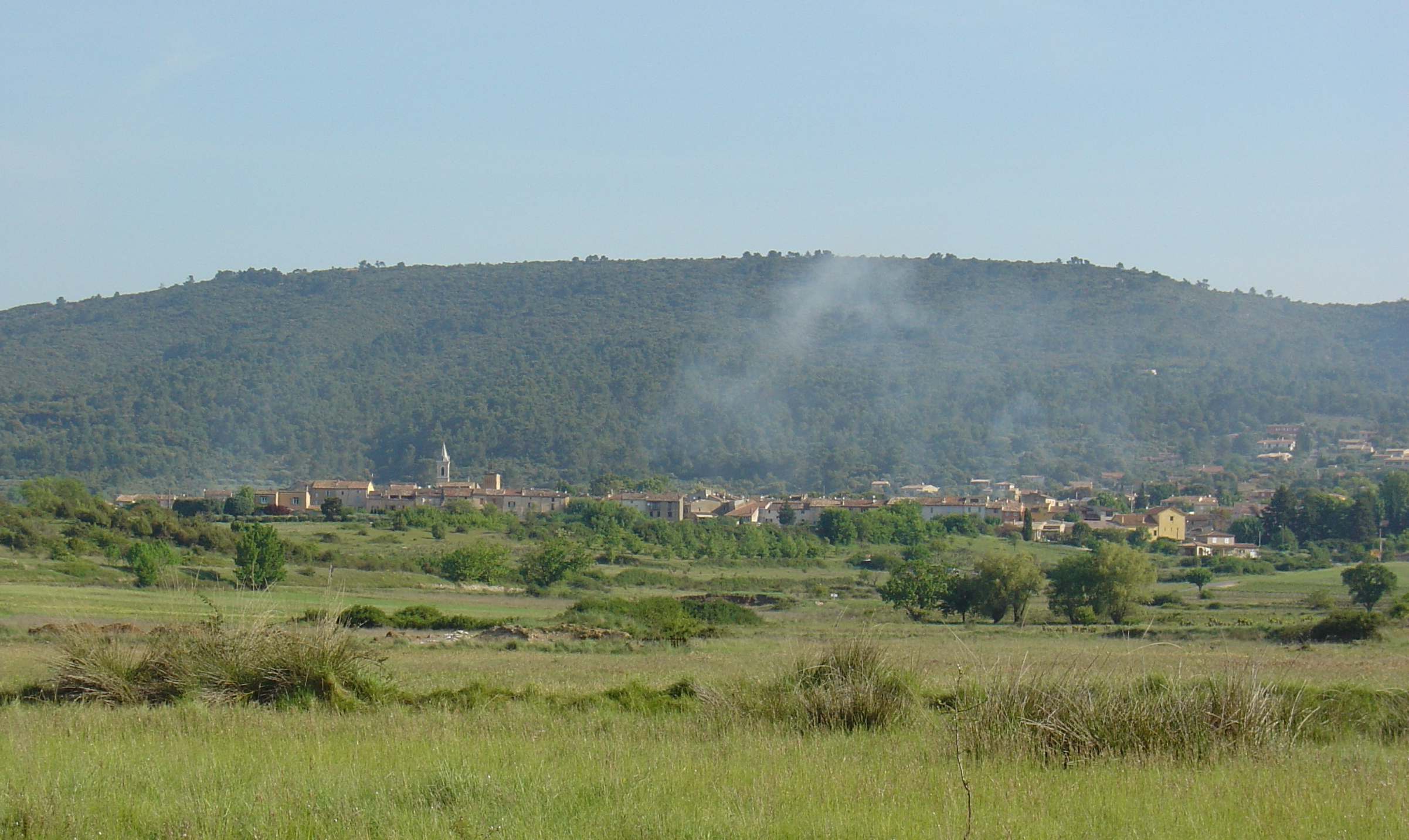 View from Tavernes(France).